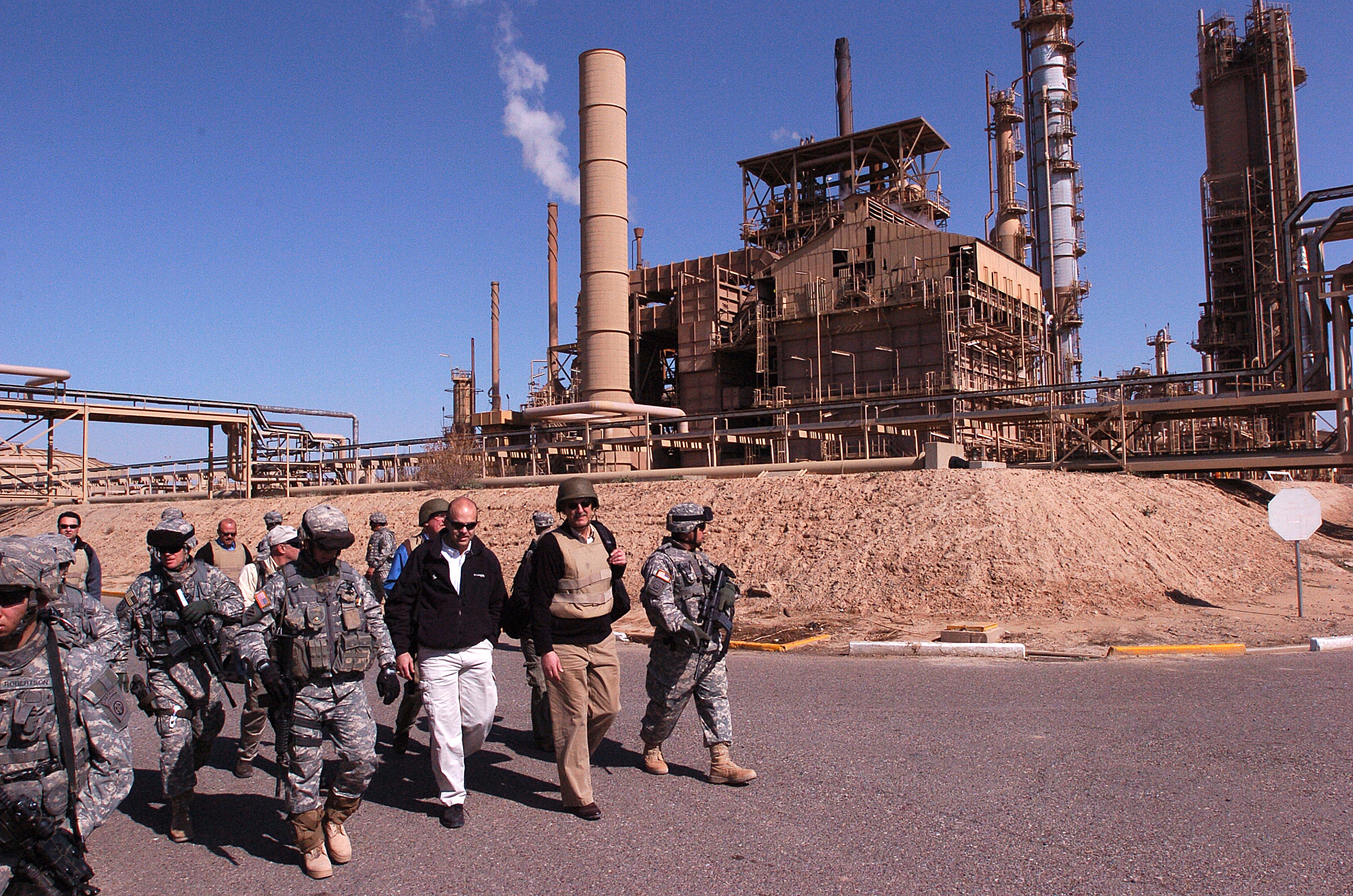 Deputy Under Secretary of Defense for Business Transformation, Mr. Paul Brinkley, walks with members of his task force and security after completing a tour of the Bayji Fertilizer plant in Bayji, Iraq